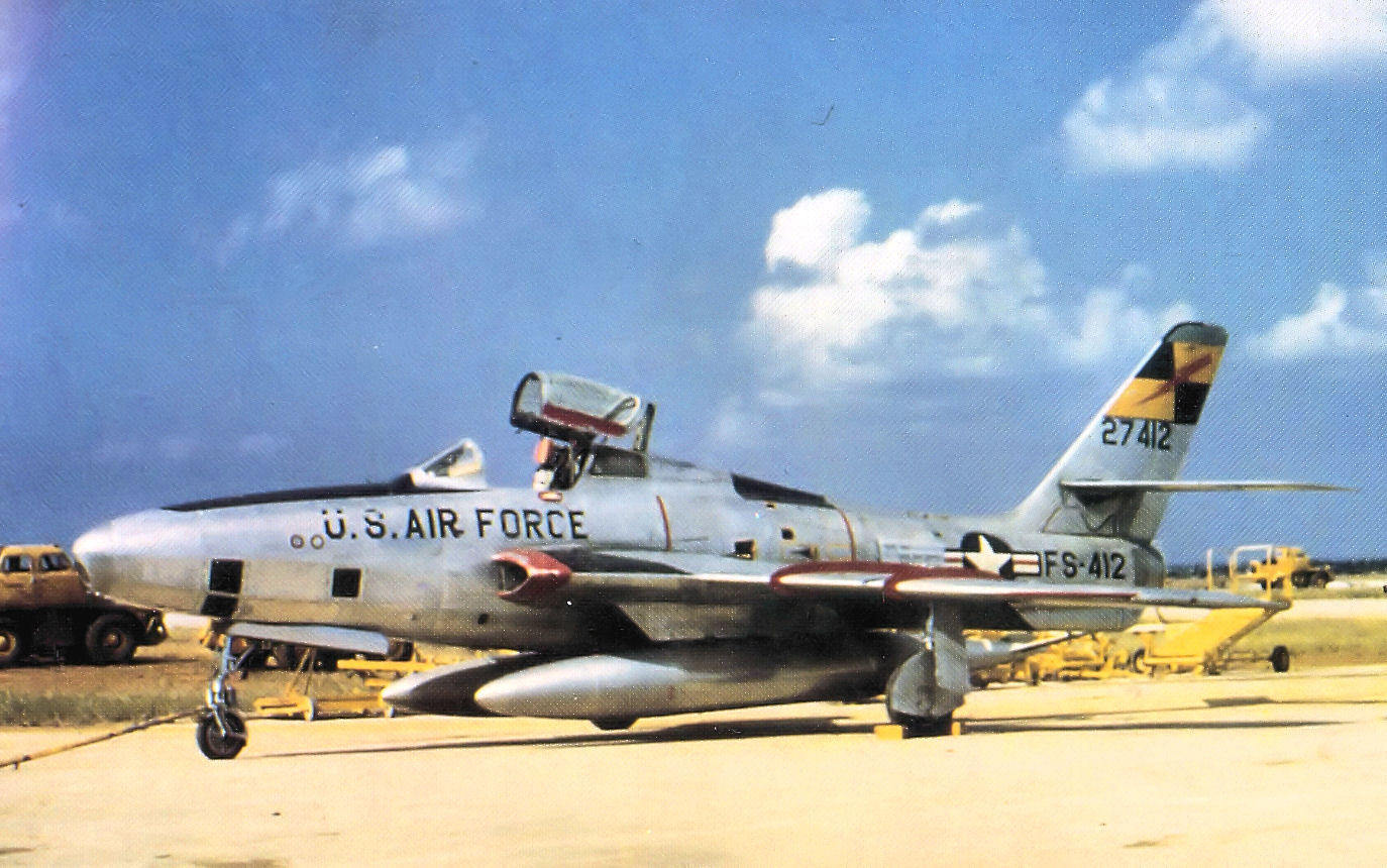 15th Tactical Reconnaissance Squadron Republic RF-84F-30-RE Thunderflash 52-7412, Kadena AB, Okinawa, 1956